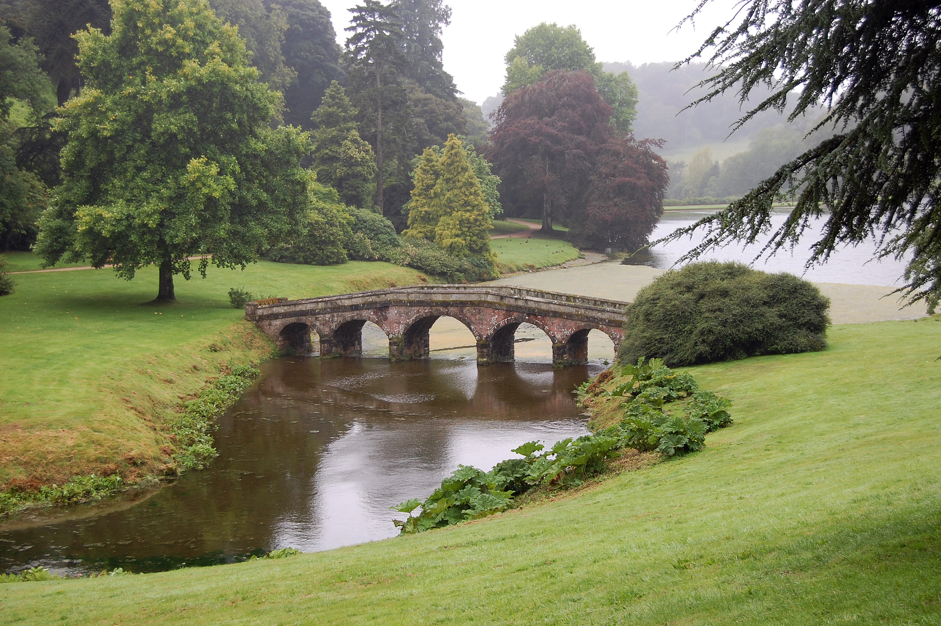 Stourhead